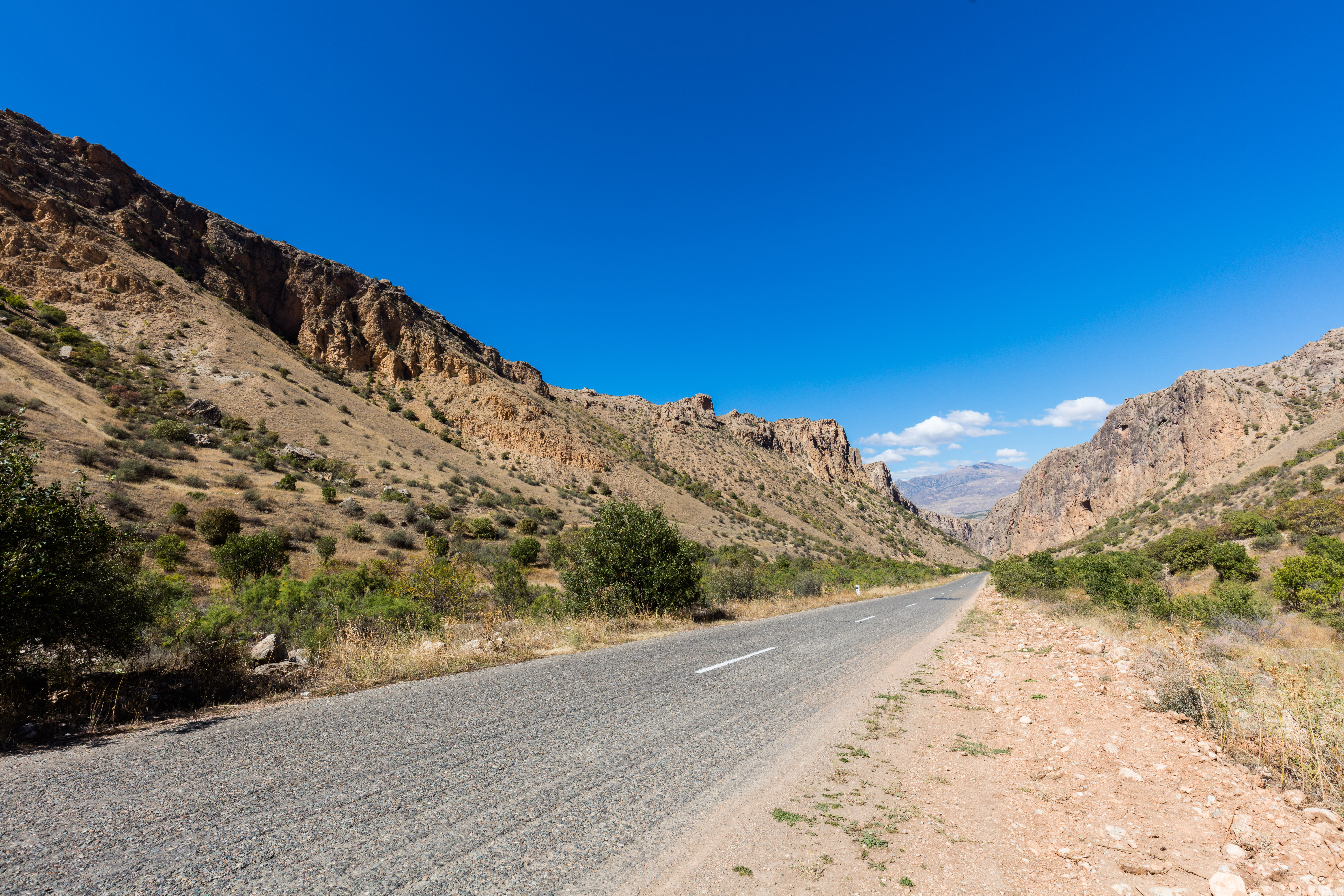 Road to the Noravank Monastery, Armenia